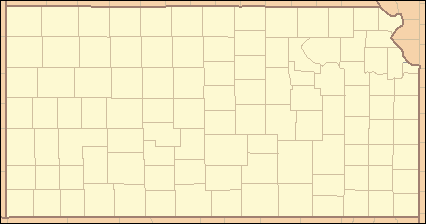 Locator Map of Kansas, United States